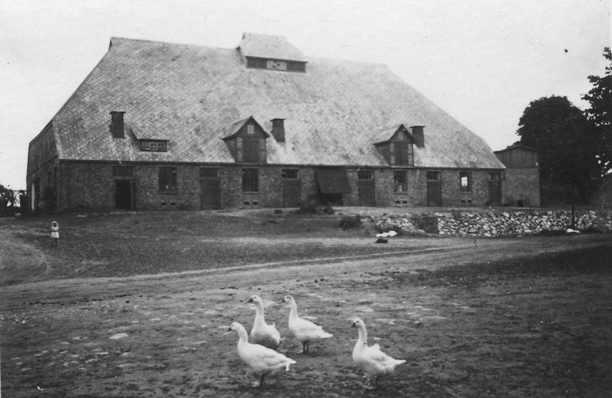 Cowshed in Germany in Benz near Malente